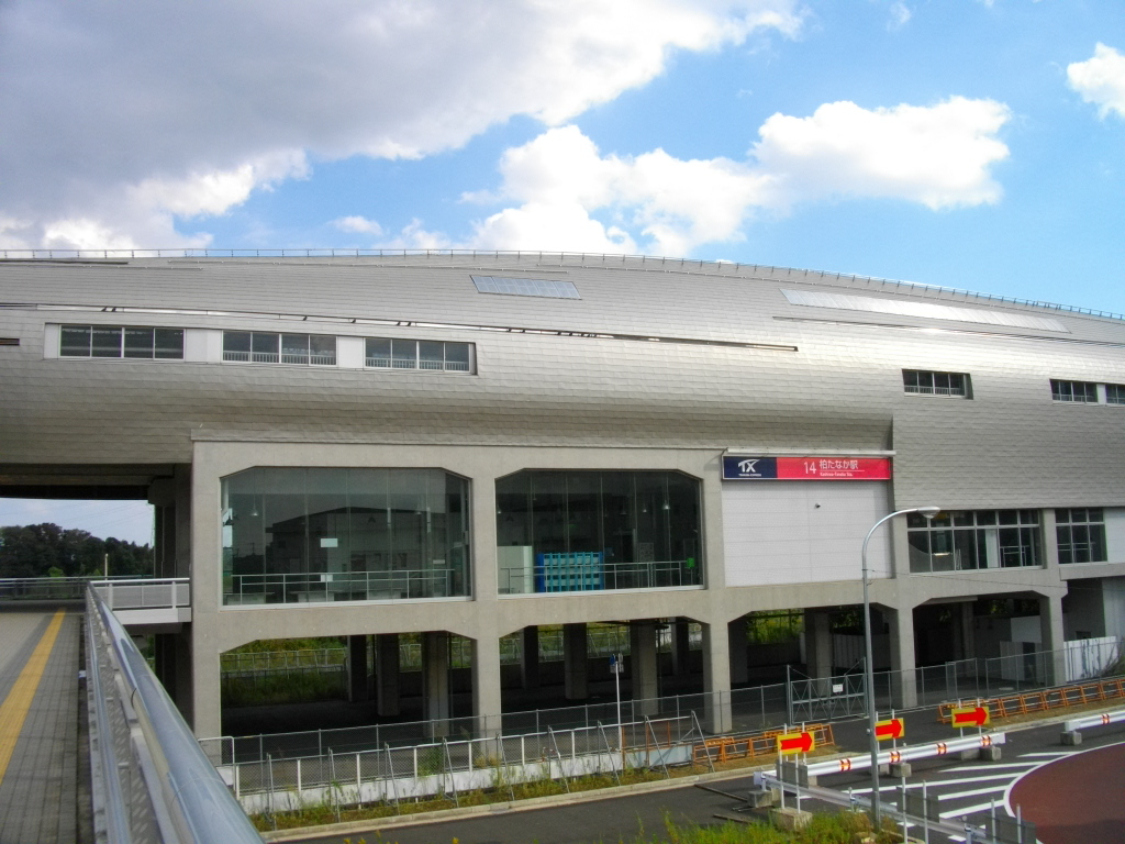 Kashiwa-Tanaka Station